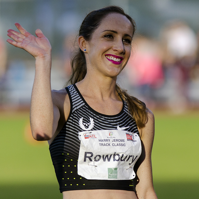 Photo of Shannon Rowbury